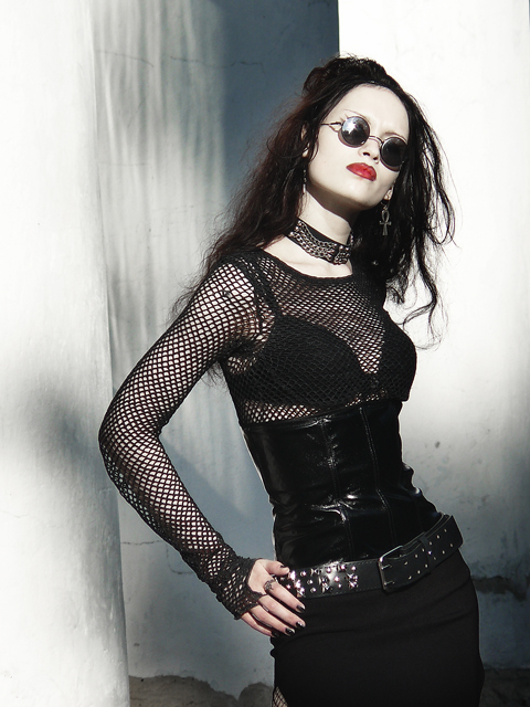 Russian gothic model